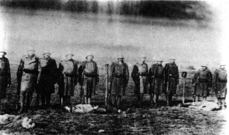 Execution participants Rumburské insurgency 29th May 1918